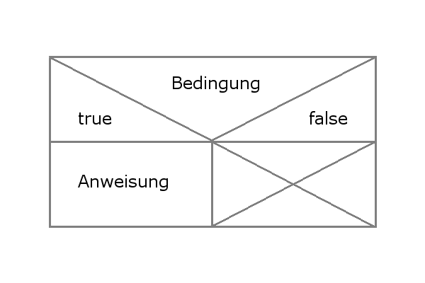 One-sided choice (if-instruction)